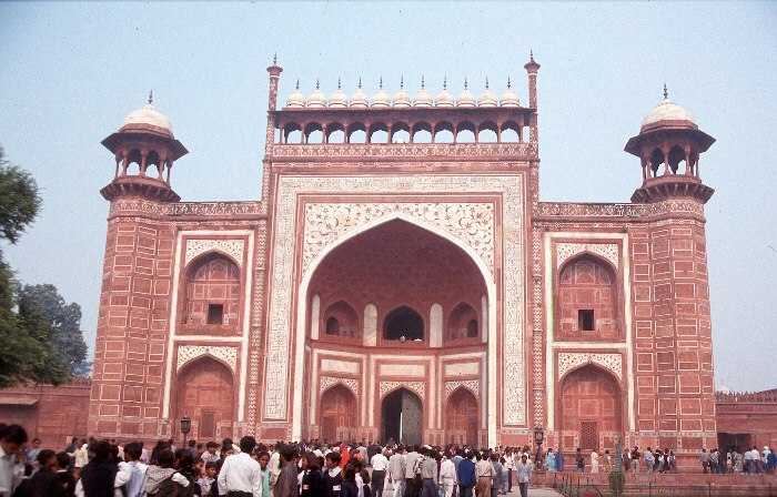 Agra, a city two hours to the south of Delhi, is home to the most magnificent building in the world, the Taj Mahal. The entrance to the grounds of the Taj Mahal is itself a beautiful structure. I had to enter through the small door on the extreme lower right of the picture. My belongings were thoroughly searched, and I had to check in a small knife that I carried - security is tight to protect the structure from any form of vandalism.